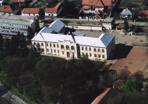 Tiszafüred, Hungary, aerialphotography